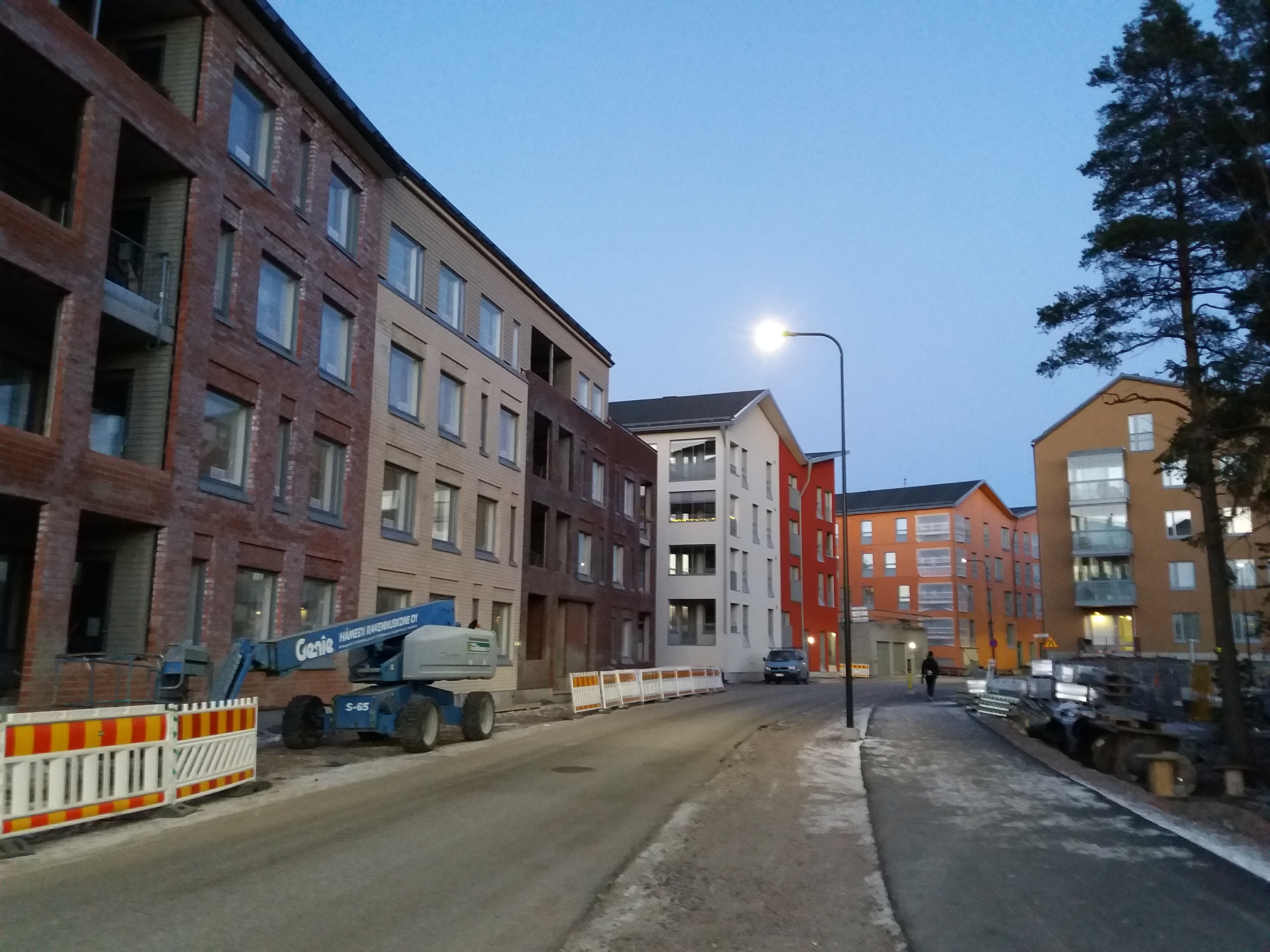 Unfinished residential area Kuninkaantammi in Helsinki, Finland